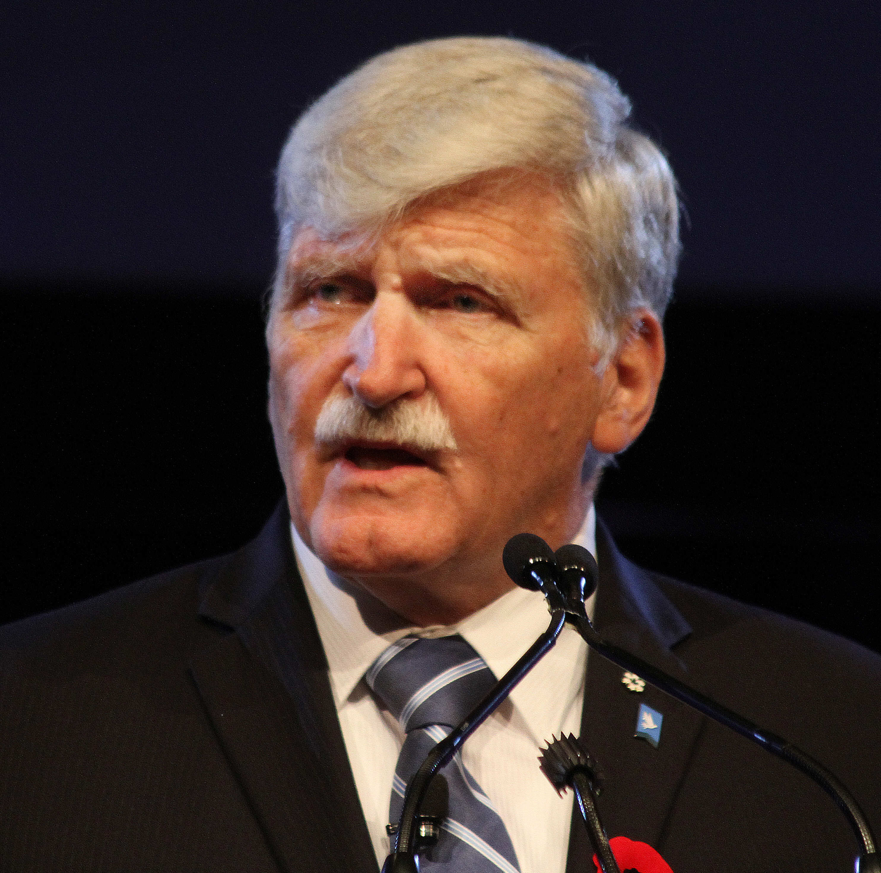 General Romeo Dallaire speaking in 2017.